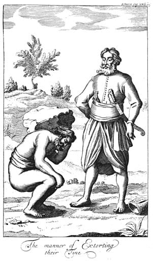 A peasant and a Govigama - tax collecting state offiiicial of sri lanka